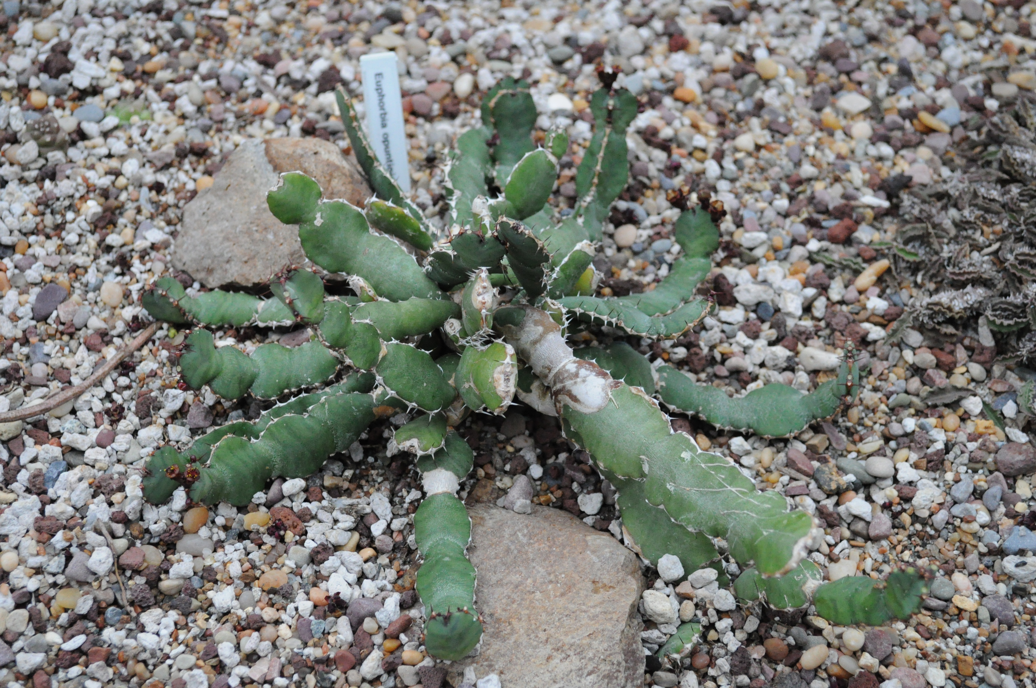 Euphorbia opuntiodes. Volunteer Park Conservatory, Volunteer Park, Capitol Hill, Seattle, Washington, USA.